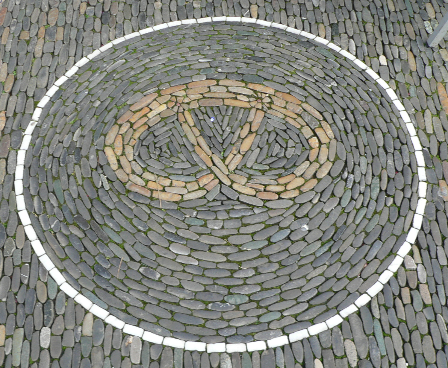 Cobblestone mosaic in Freiburg im Breisgau, Germany, Oberlinden 5